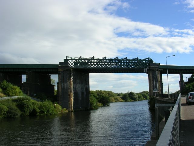 Over the Canal. Here, at Irlam, the Manchester to Warrington and Liverpool railway line crosses the Manchester Ship Canal. There is enough clearance under the bridge to allow the passage of ocean going ships.The River Mersey enters the canal on the left just beyond the bridge. Taken from SJ72669377 looking S